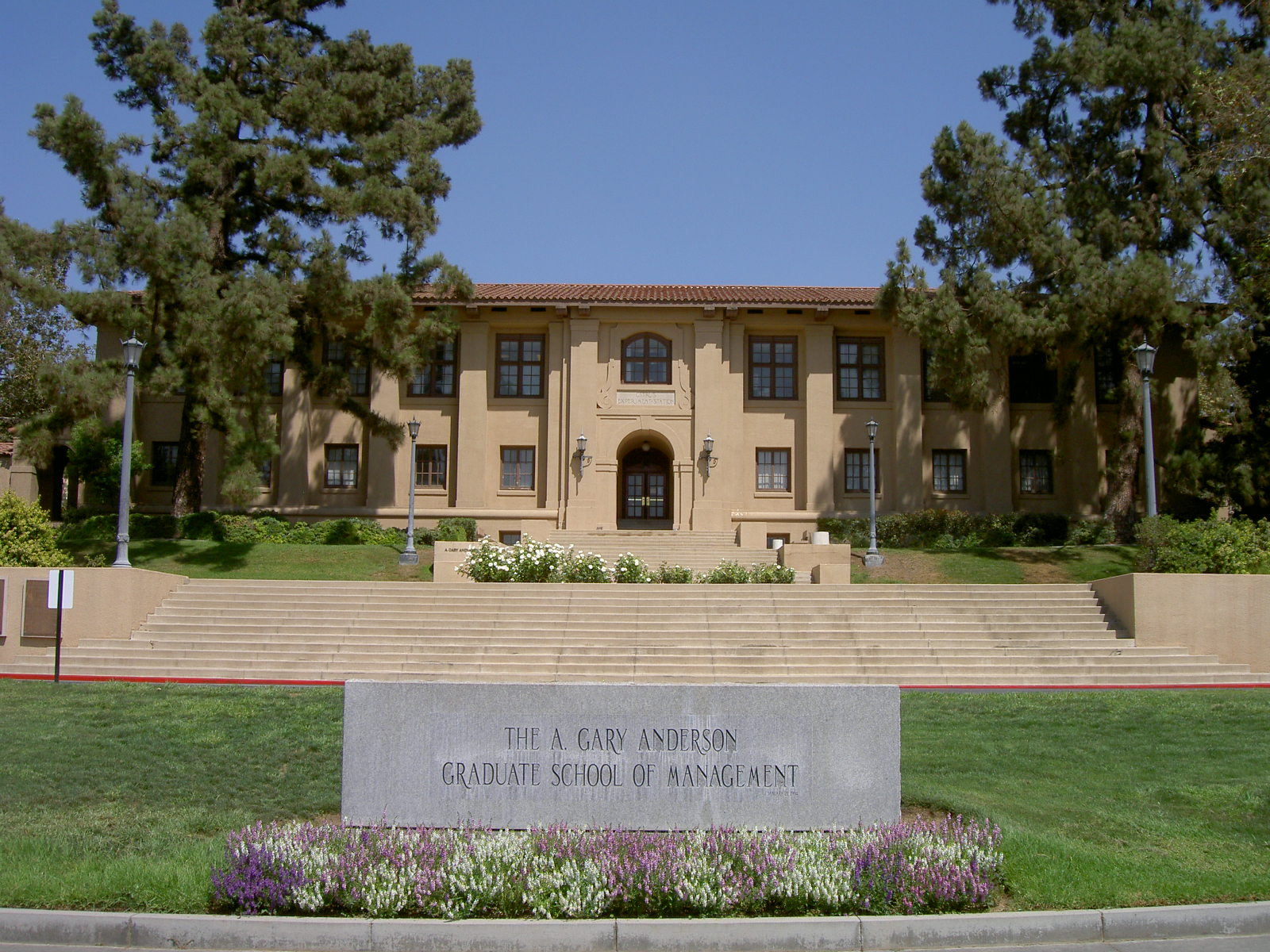 A. Gary Anderson Graduate School of Management, located in the building of the Citrus Experiment Station